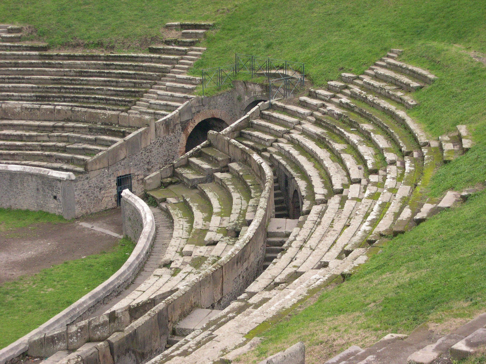 Interior of the amphitheatre in Pompeii, showing seating and corridor.